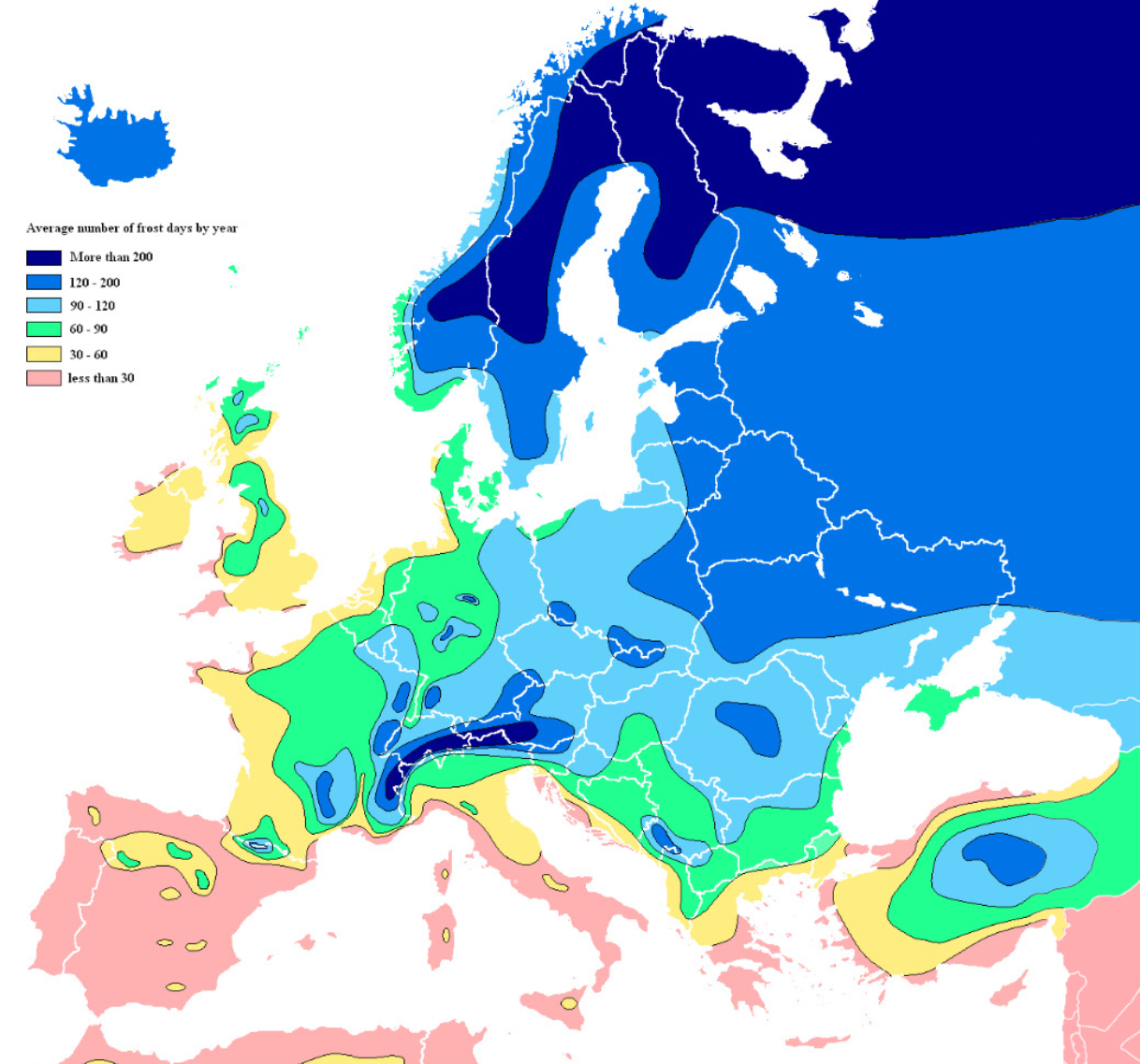 Average yearly number of frost days in Europe according to the series 1961-1990.